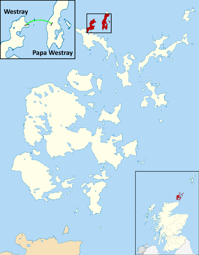 This is a map depicting the shortest scheduled airline flight in the world as of December, 2016. The record was established in 1967. The flight goes between two islands in Orkney, Scotland: Westray and Papa Westray.